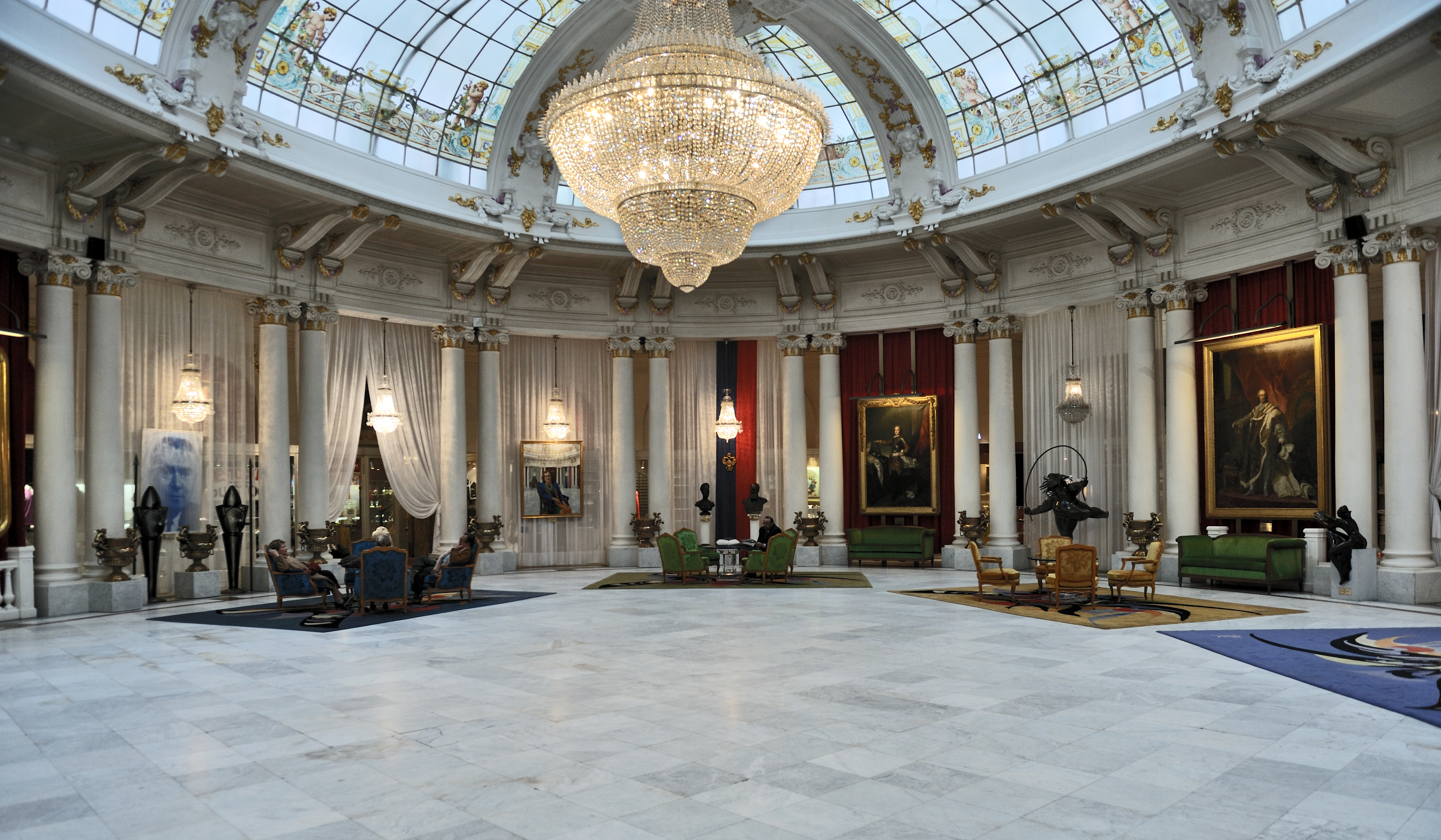 Central hall of the Hotel Negresco in Nice. The chandelier is in fine Baccarat crystal. The hall is listed as National Historic Building since 2003.